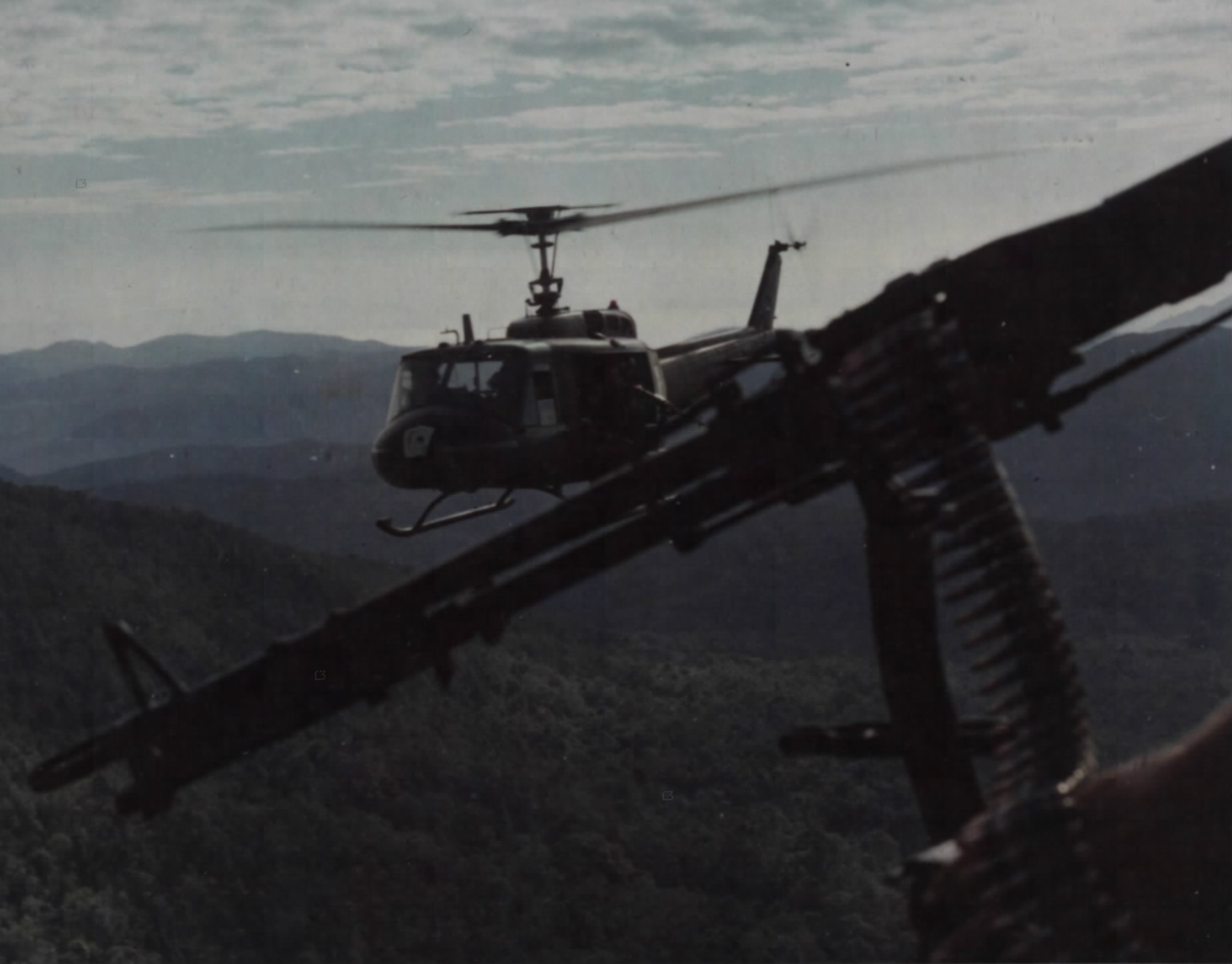 A UH-1D helicopter from a sister ship during an Operation Francis Marion with an M-60 machinegun in the foreground.